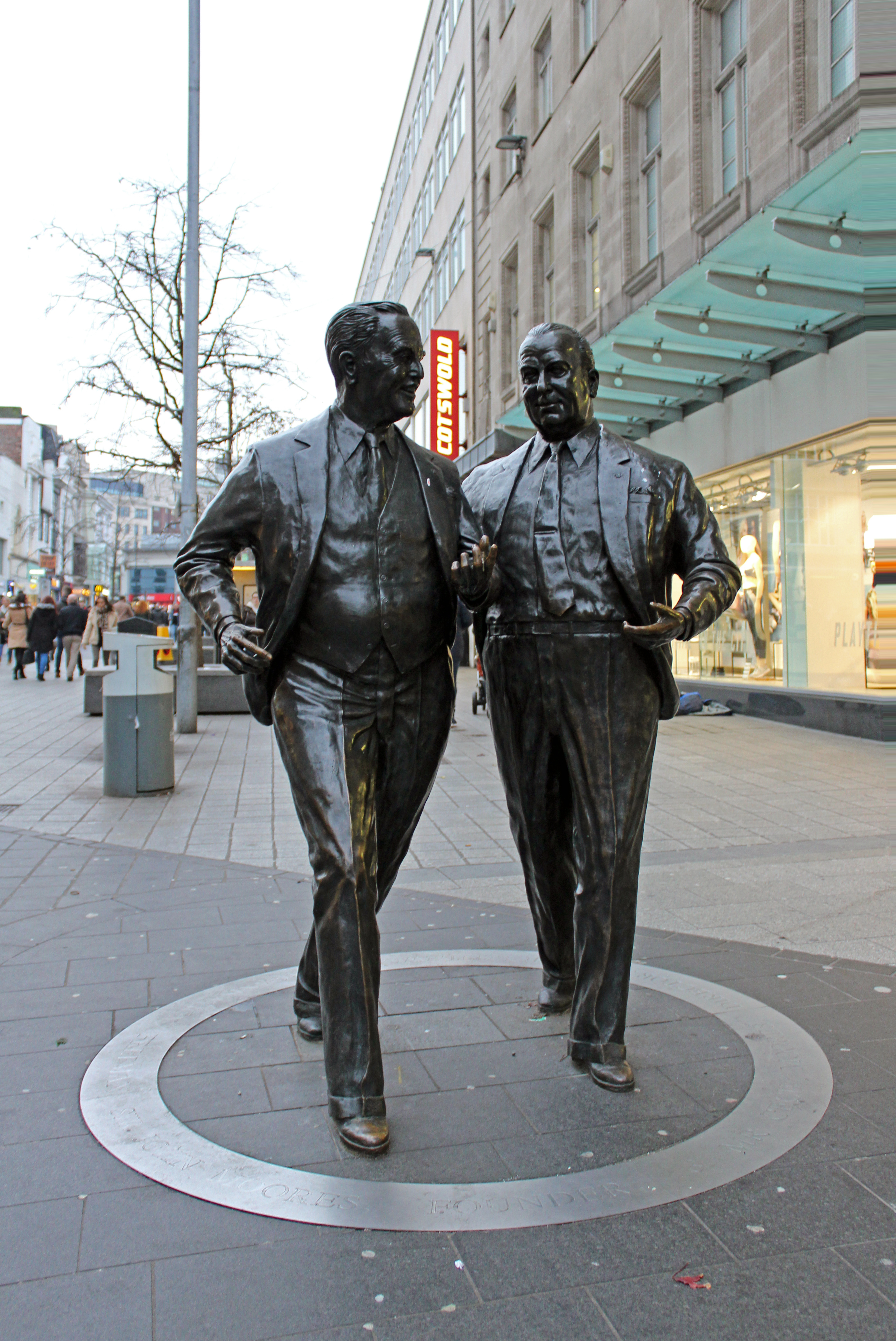 Bronze statue of John & Cecil Moores, founders of Littlewoods Football Pools, in Church Street, Liverpool.